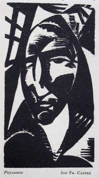 Paysanne, by Jan-Frans Cantré (1886-1931)